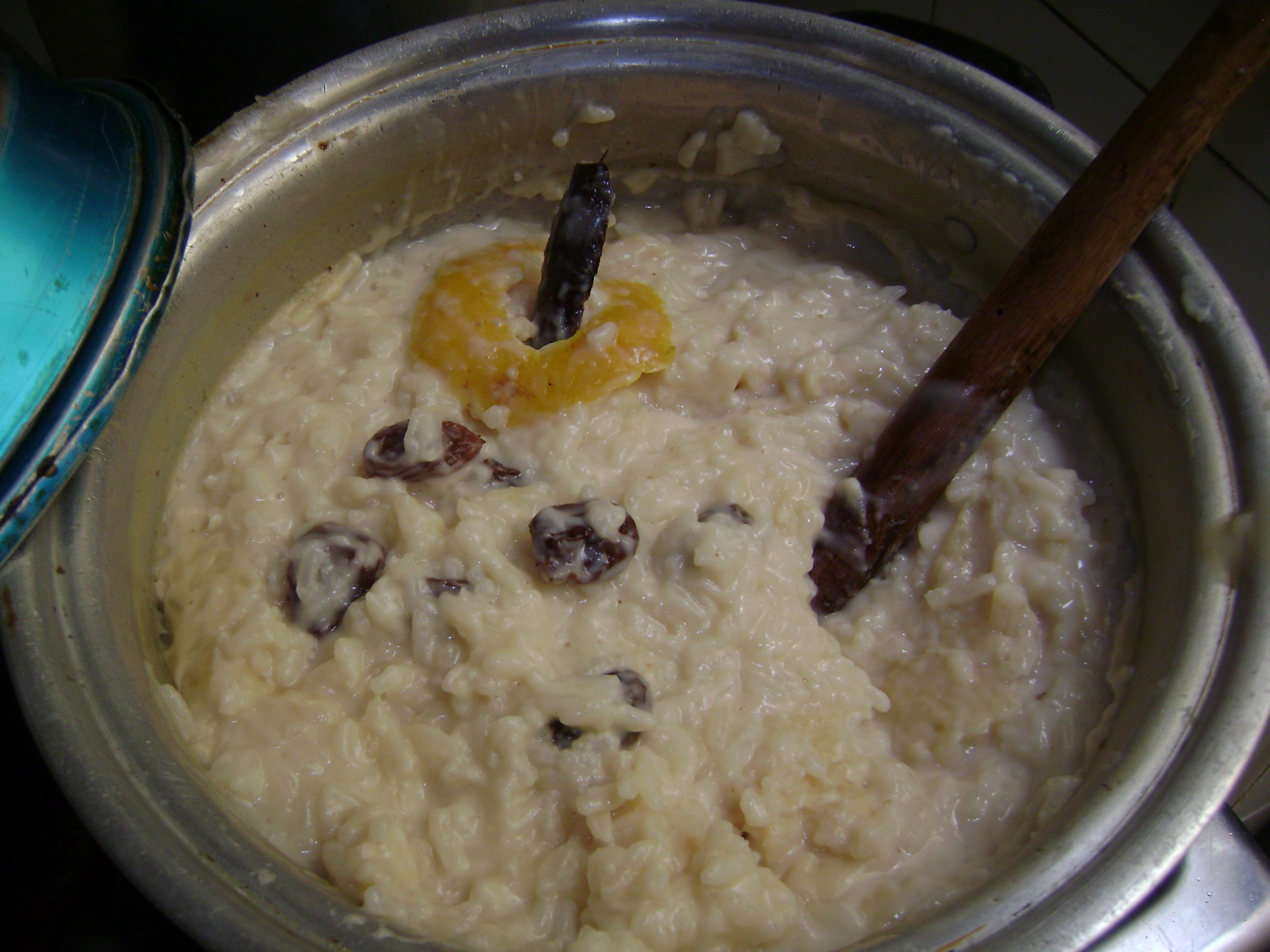 Arroz con leche, peruvian style, in a pot. Note the orange peel, prune and cinamon.